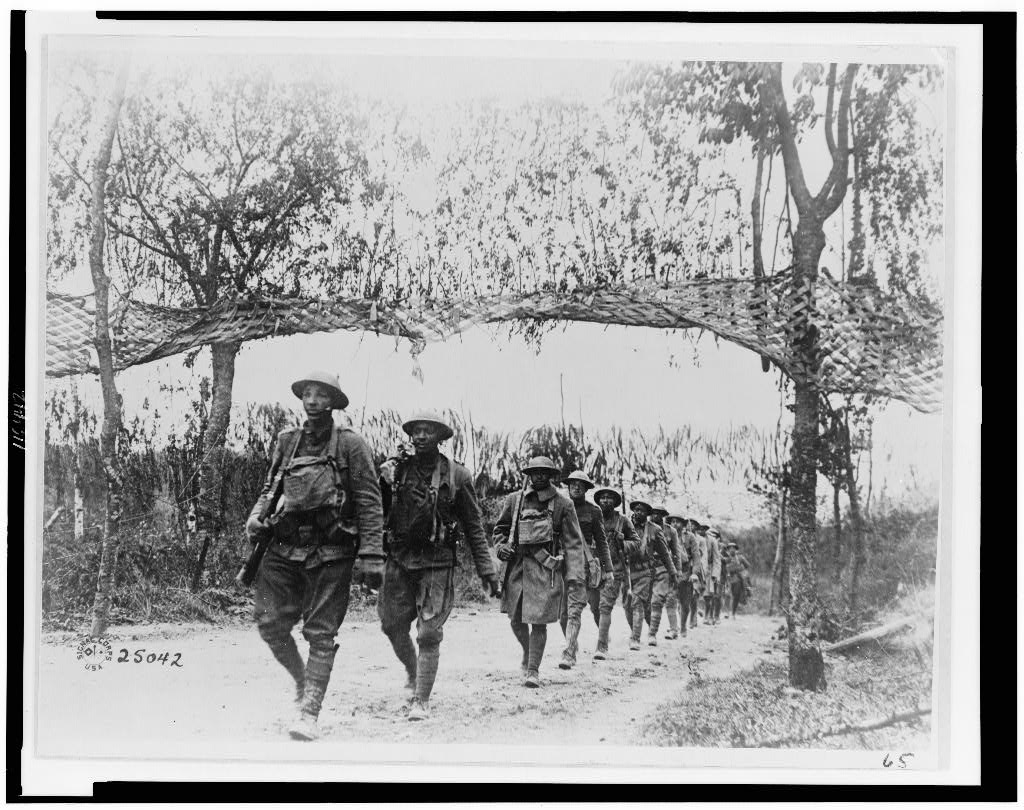 A picture of African-American soldiers in an all African division, marching in France, during WWI. Taken by a U.S. Army Corps photographer.